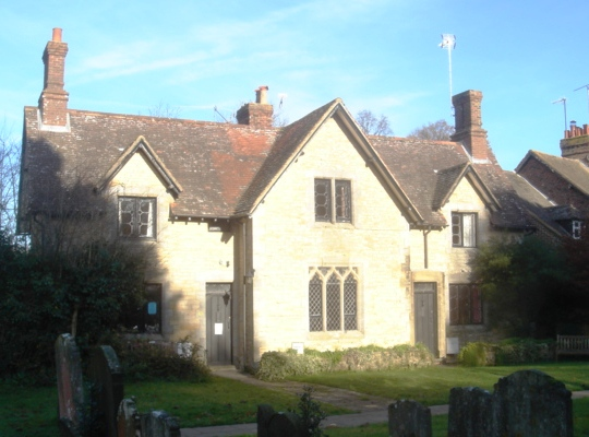 Church Cottage, The Street, Ifield, Borough of Crawley, West Sussex, England: Ifield's first school, built in the 1840s in Gothic style. Now cottages. Listed at Grade II by English Heritage (IoE code 363399)